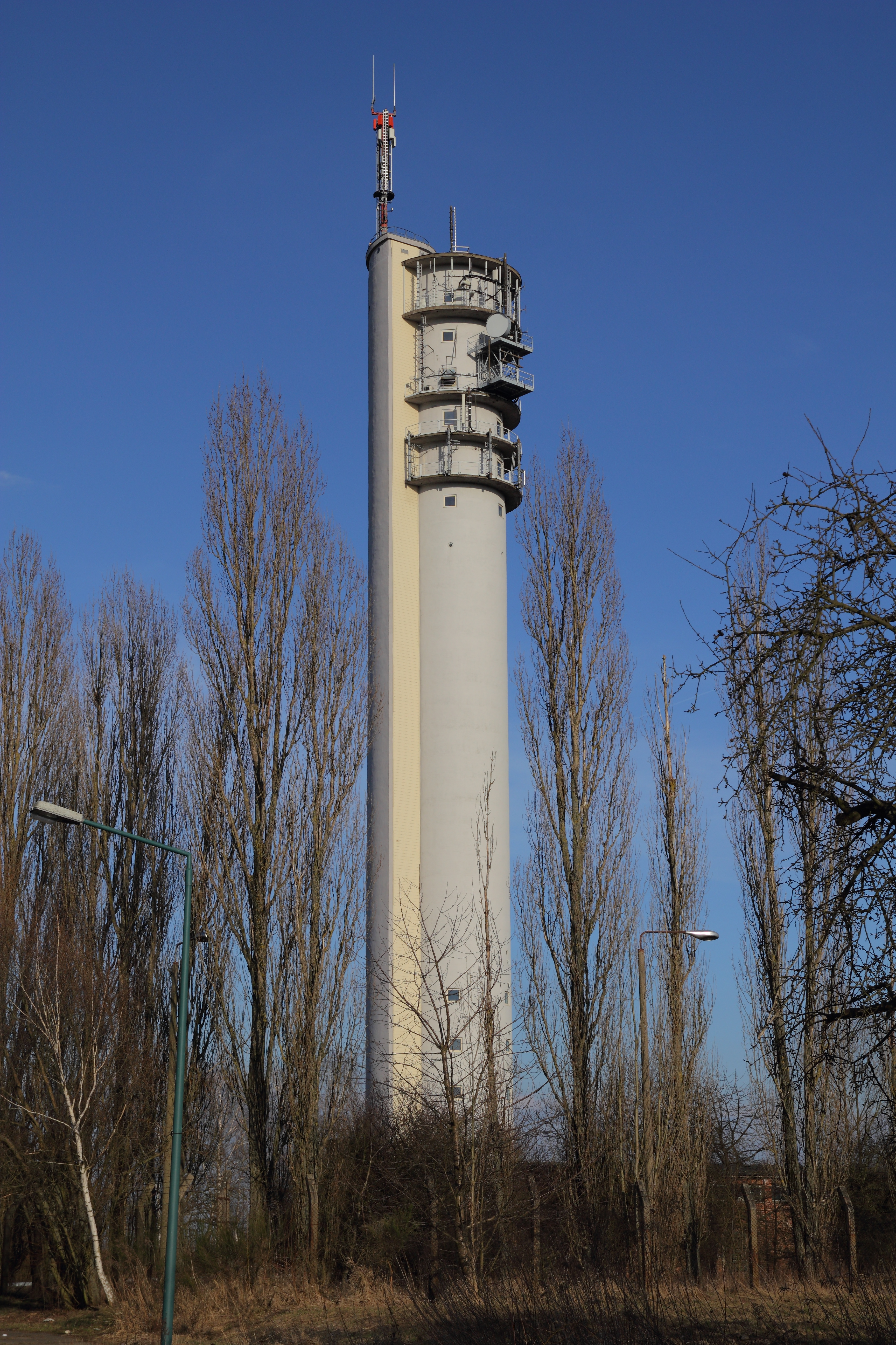 TV tower, Frankfurt (Oder), Brandenburg, Germany